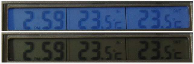 Backlit LCD display, on and off.